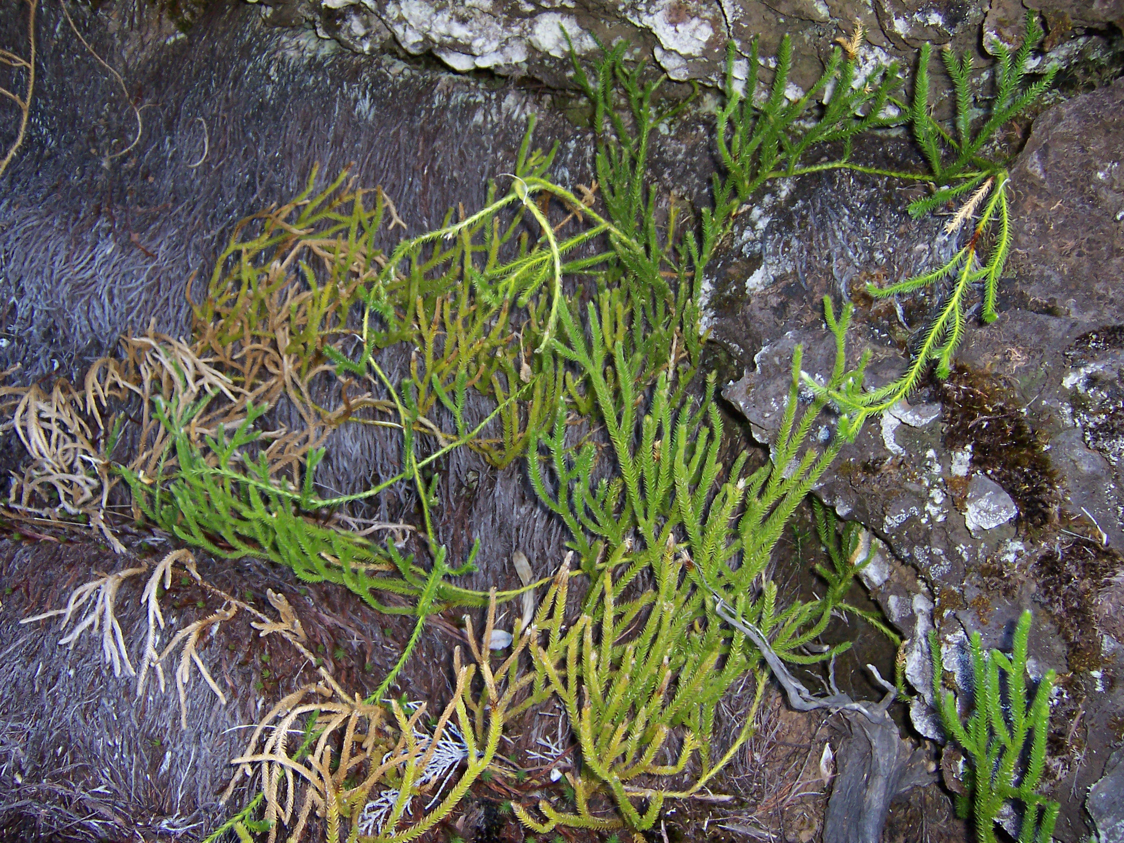 Lycopodium clavatum, on Réunion island, at the base of the cliffs of plateau des Basaltes.